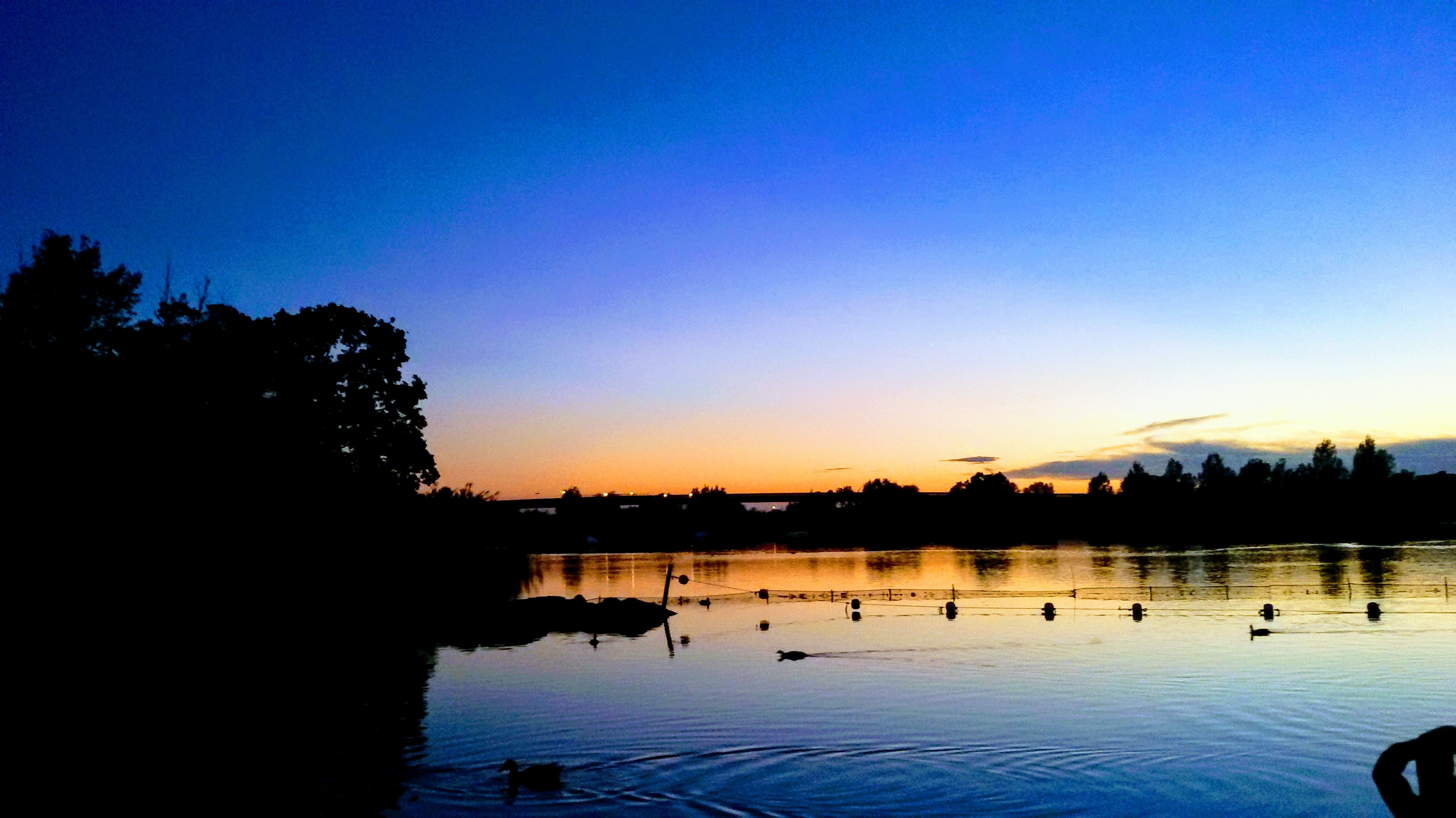 Sunset on Braccini lake (Pontedera)